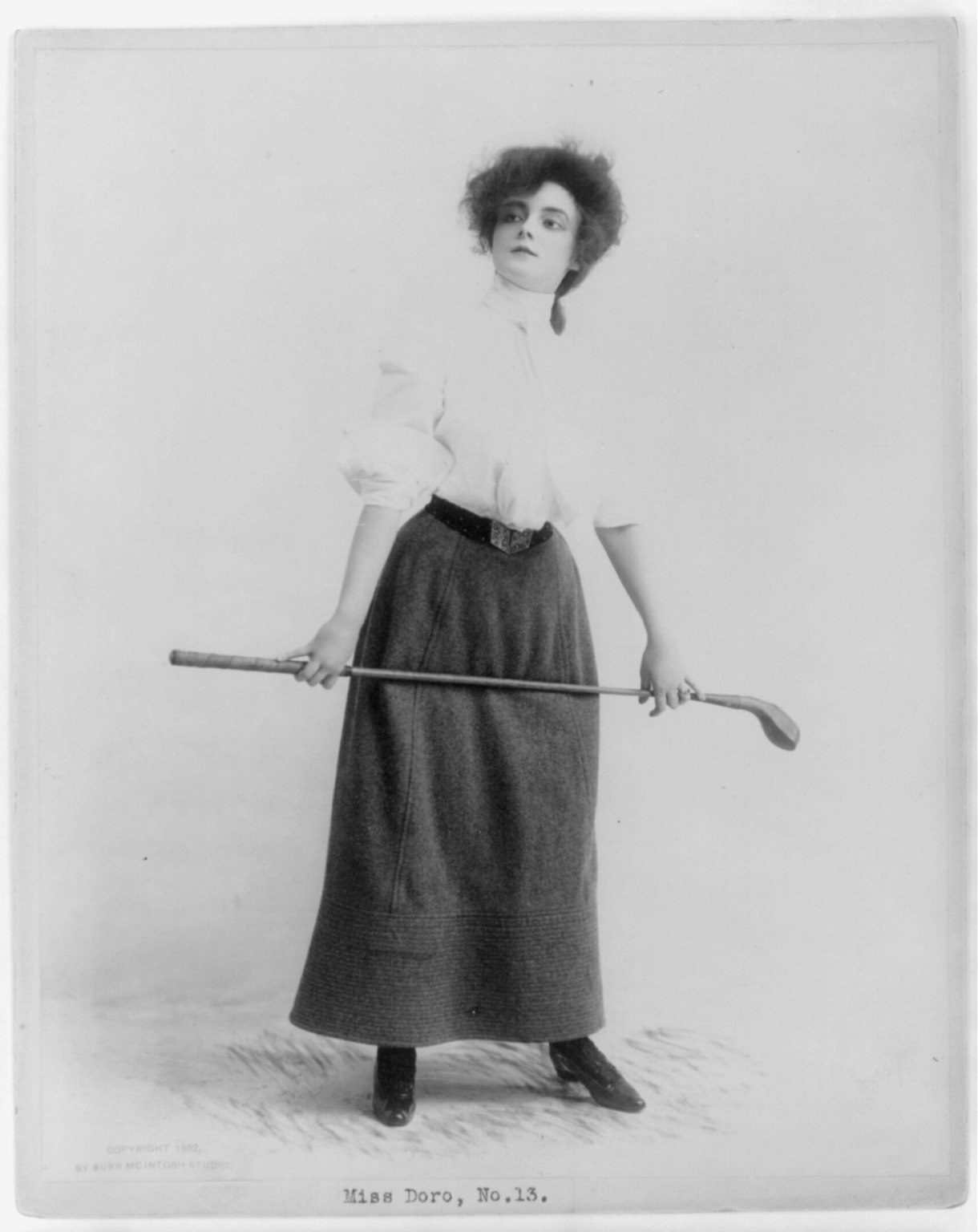 Title: Miss Doro, no. 13 Abstract/medium: 1 photographic print.